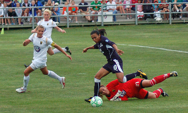 Marta Vieira da Silva at WPS All star match.